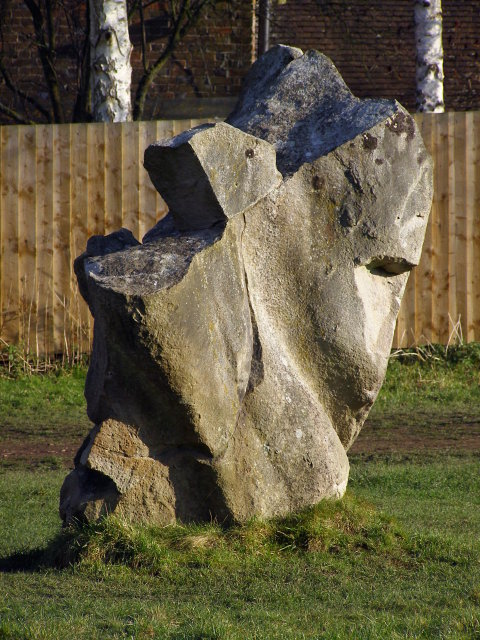 The Forge Stone This standing stone was previously incorporated into the building of the village forge (Fowler's Forge): an example of the ancient standing stones being used as a source of local building material. Alexander Keiller rescued the stone from the foundations of the forge when it was demolished in the 1930s. One of the tools used to break the stone up (an iron wedge) is still embedded in the stone, near its base. The stone is much-photographed as it is the one nearest the path to the village centre from the National Trust car park.